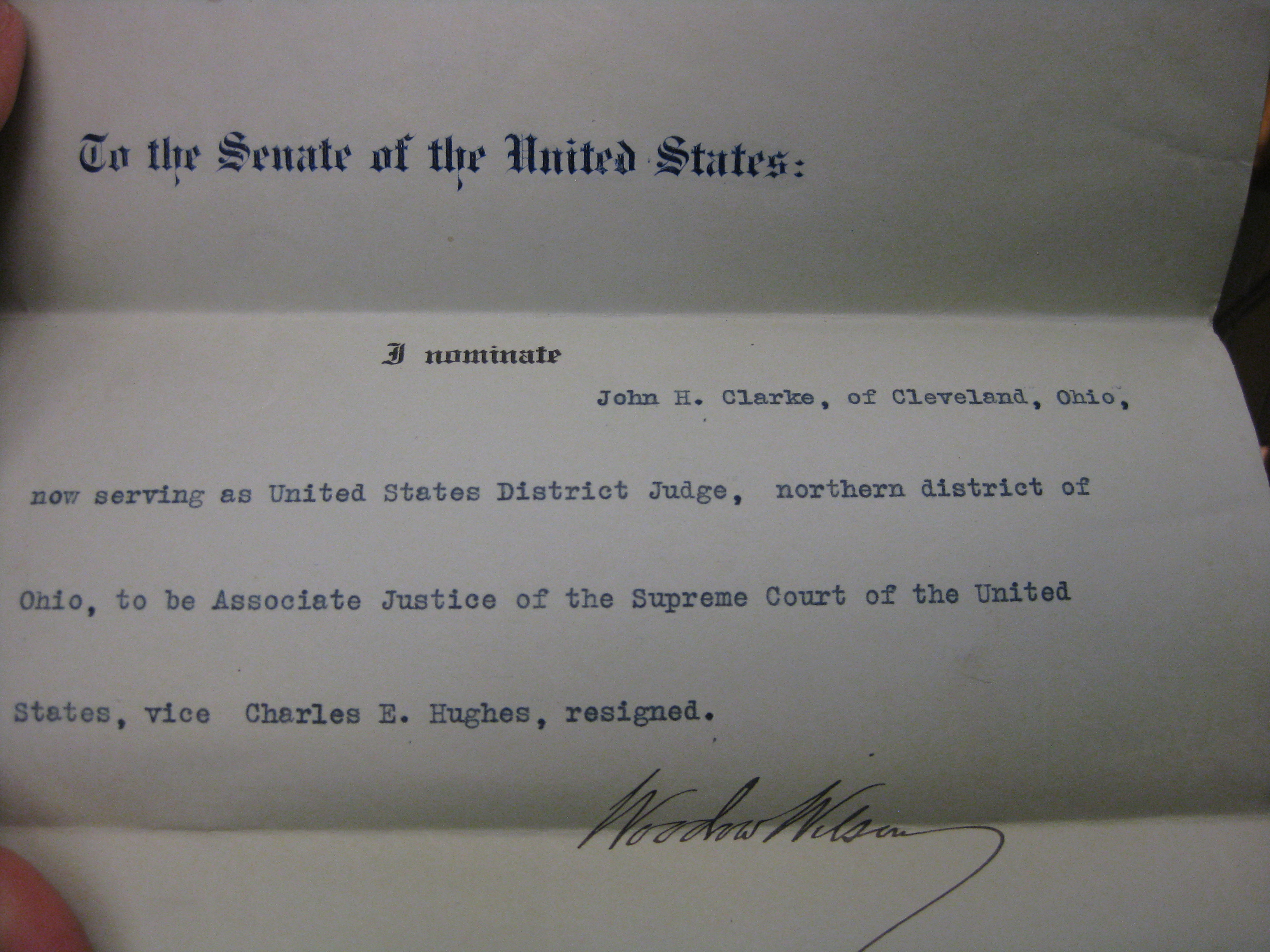 Woodrow Wilson's nomination of John H. Clarke to serve on the U.S. Supreme Court. Courtesy of the National Archives and Records Administration.